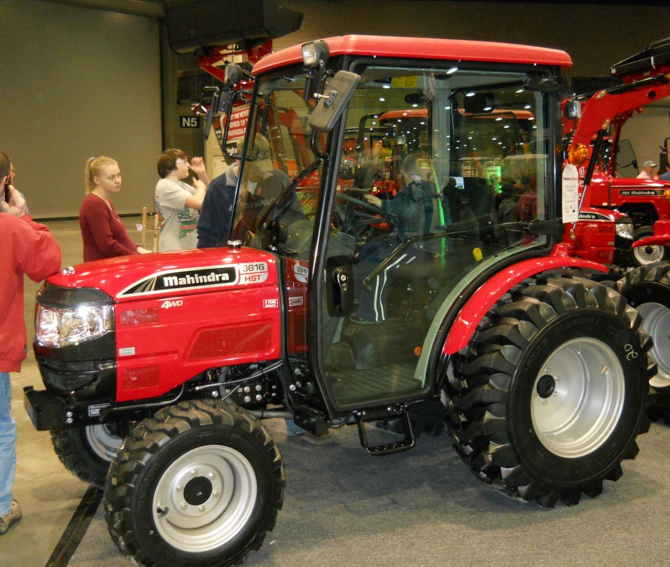 2011 Mahindra 3616 HST tractor at 2011 National Farm Machinery.